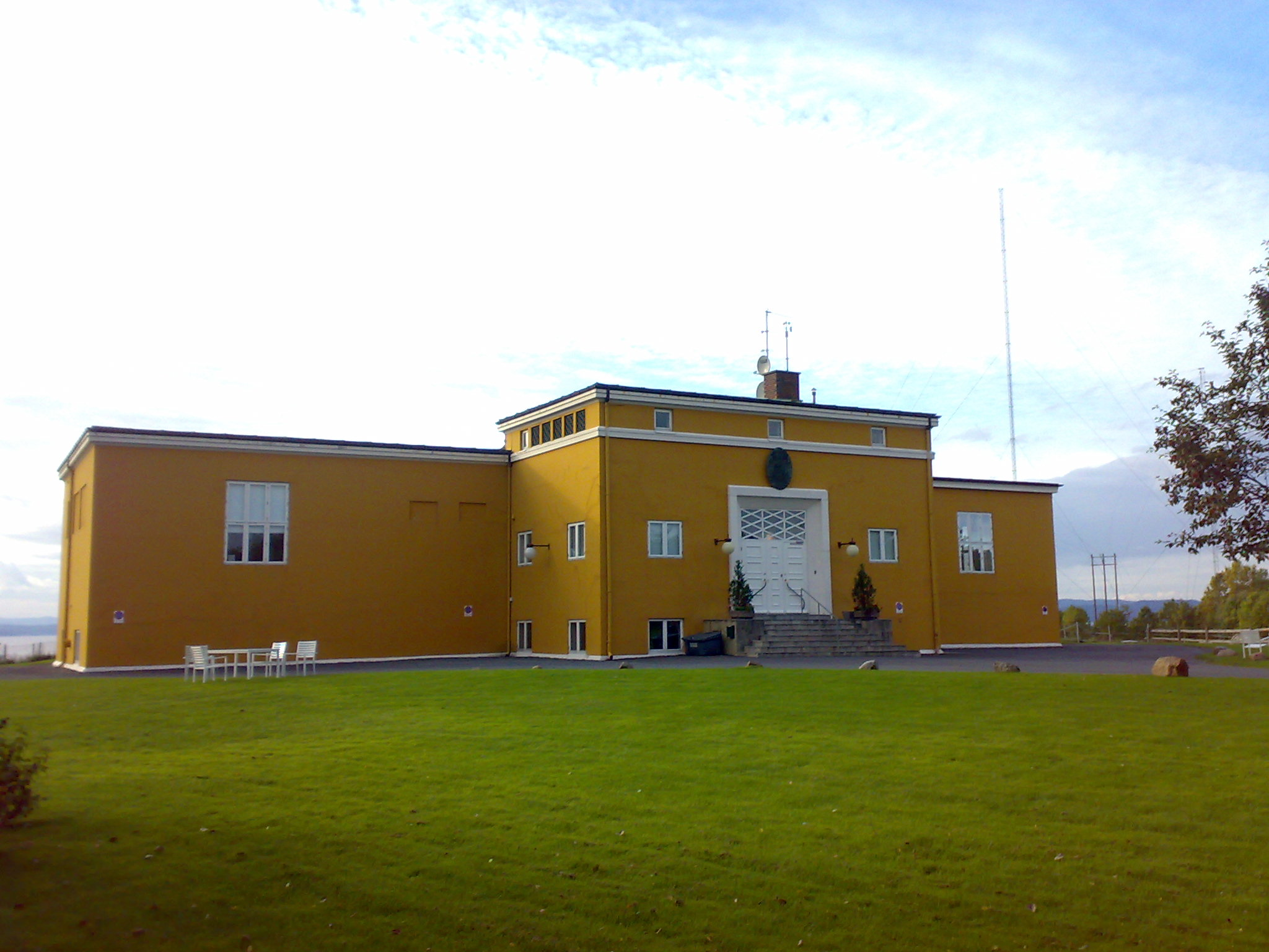 Jelöy radio, nearby Moss, Norway. A Telenor short-vawe facility from 1929, designed to support global shipping.